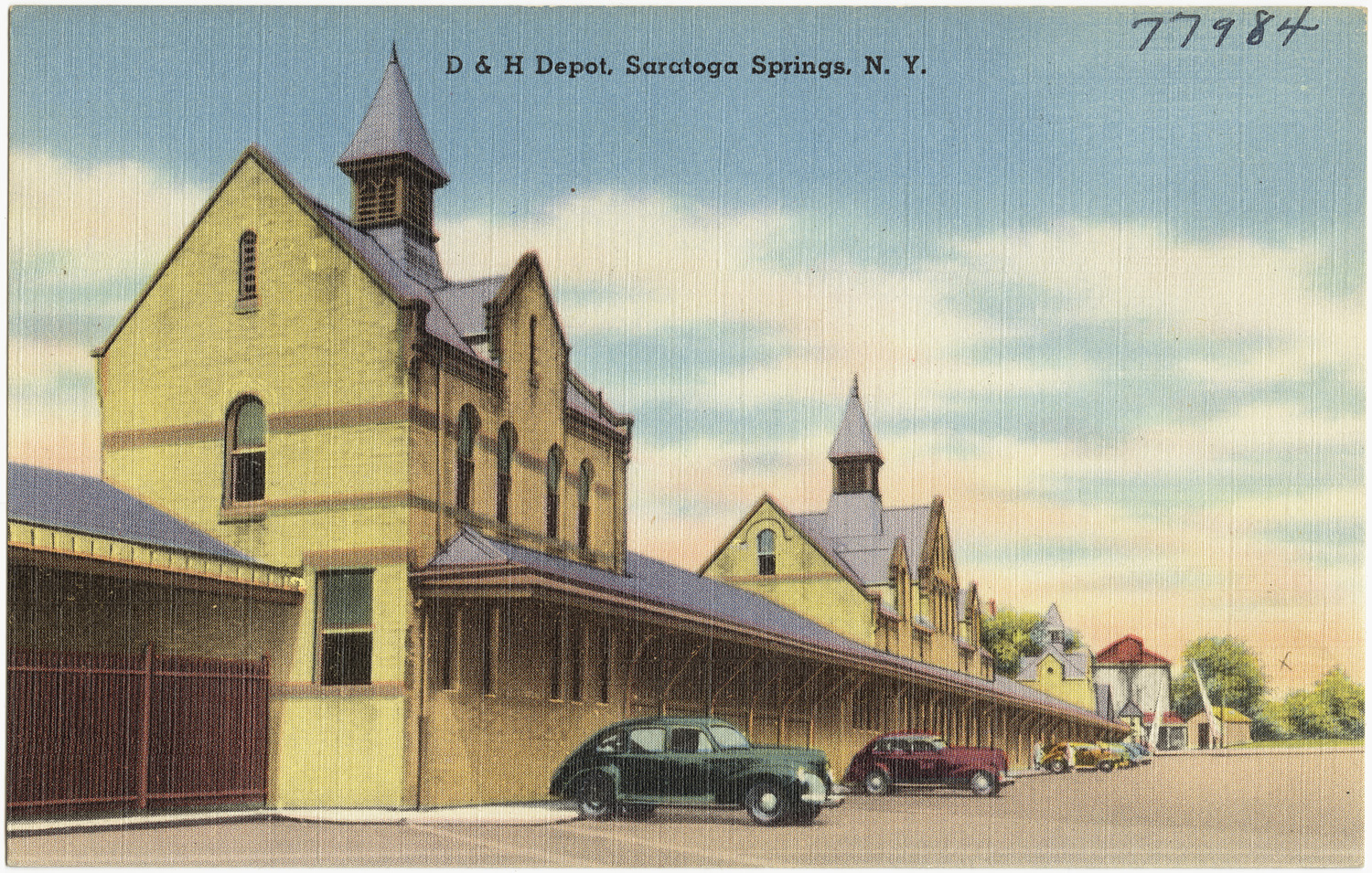 File name: 06_10_005922 Title: D & H Depot, Saratoga Springs, N. Y. Created/Published: Date issued: 1930 - 1945 (approximate) Physical description: 1 print (postcard) : linen texture, color ; 3 1/2 x 5 1/2 in. Genre: Postcards Subjects: Railroads stations Notes: Title from item. Collection: The Tichnor Brothers Collection Location: Boston Public Library, Print Department Rights: No known restrictions